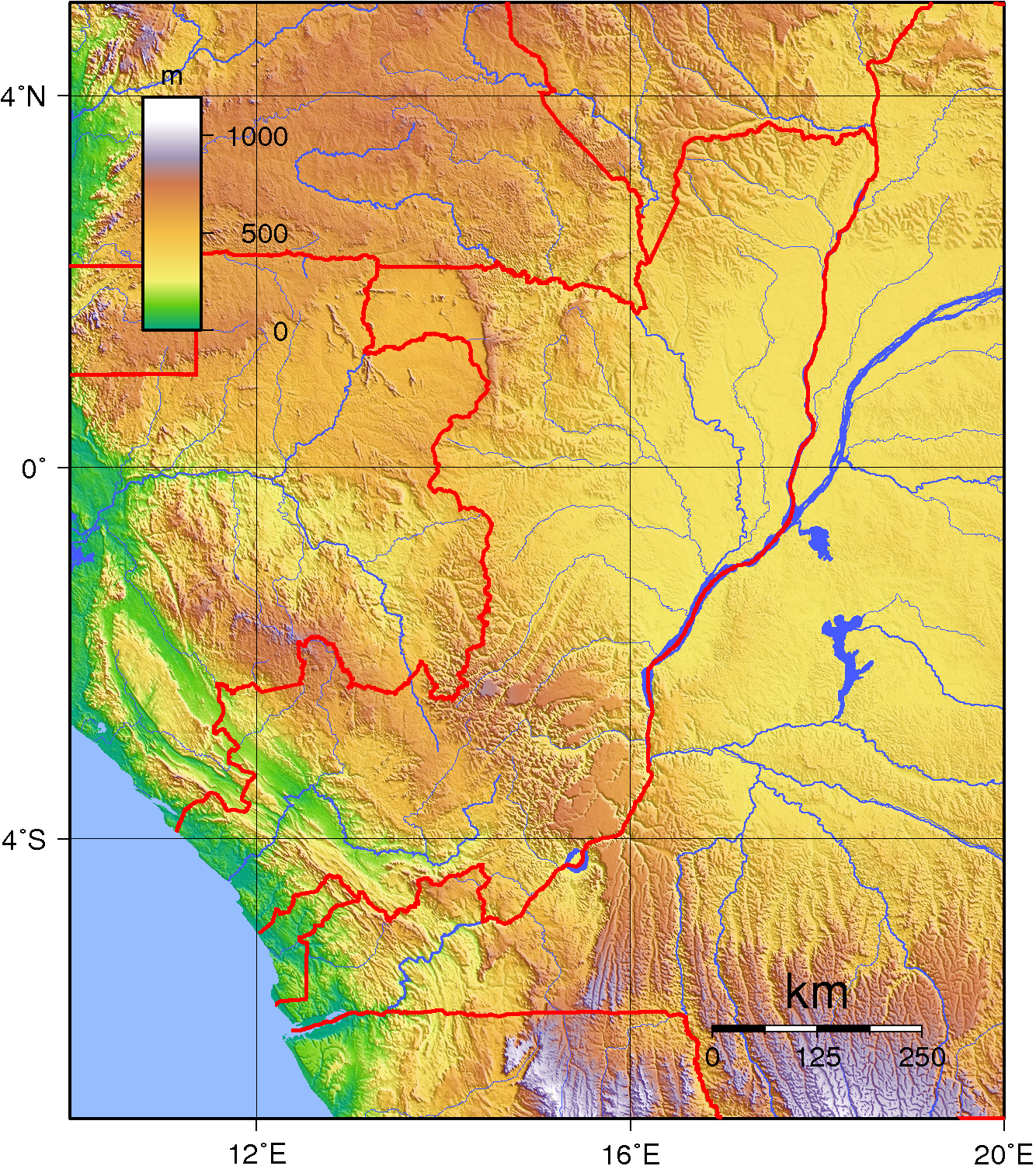 Topographic map of the Republic of the Congo (Brazzaville). Created with GMT from public domain SRTM data.